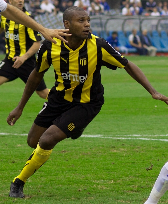 Uruguayan football player Marcelo Zalayeta, during a uruguayan derby while playing for Peñarol, at the Estadio Centenario.